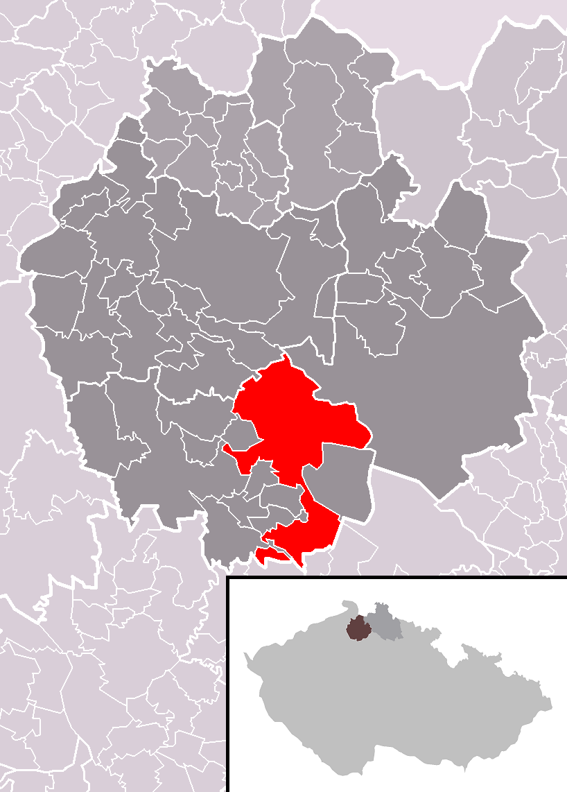 Location of Doksy town within Česká Lípa District and administrative area of Česká Lípa as a Municipality with Extended Competence.